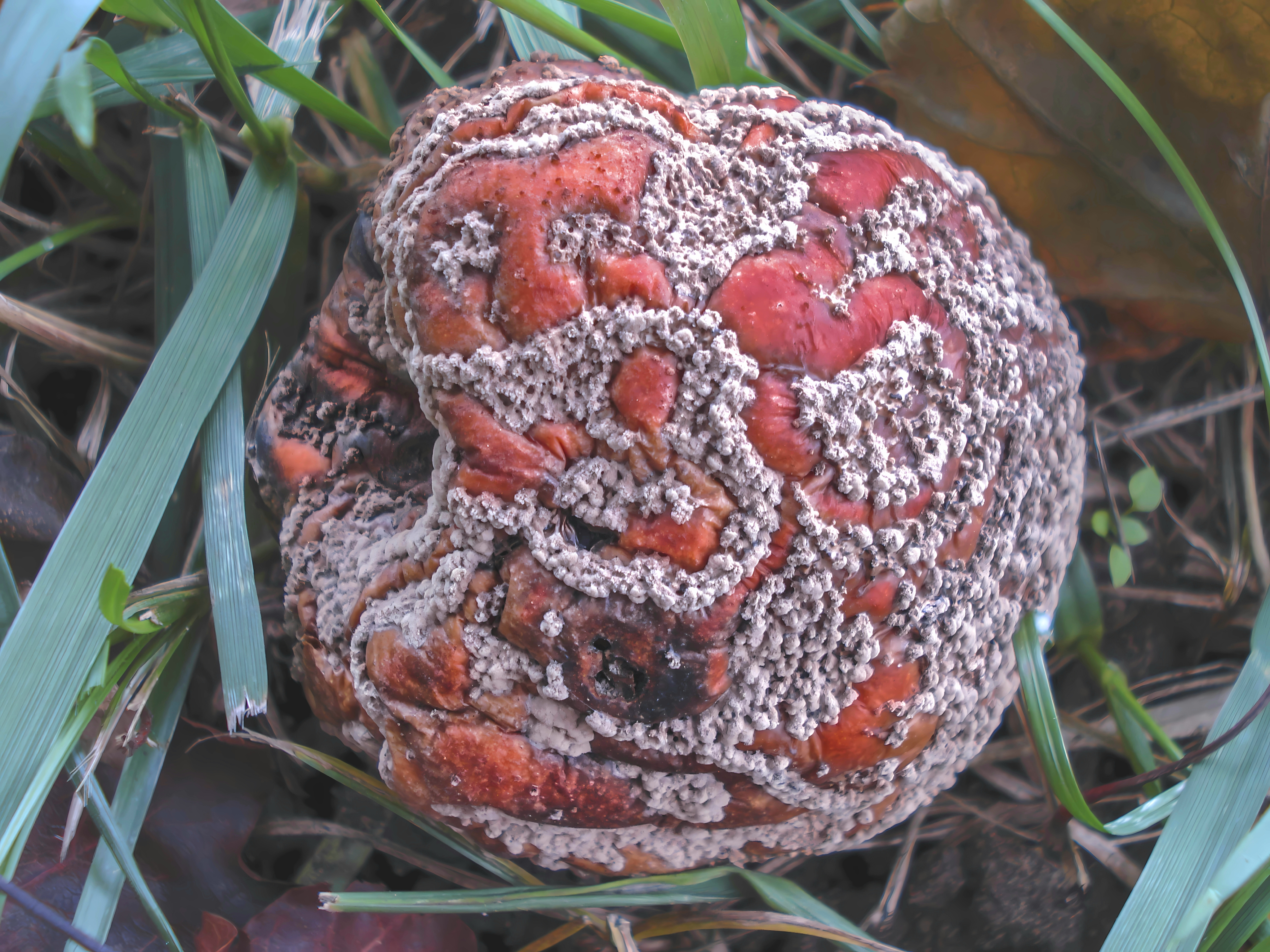 Apple with mold (Monilia spc.)